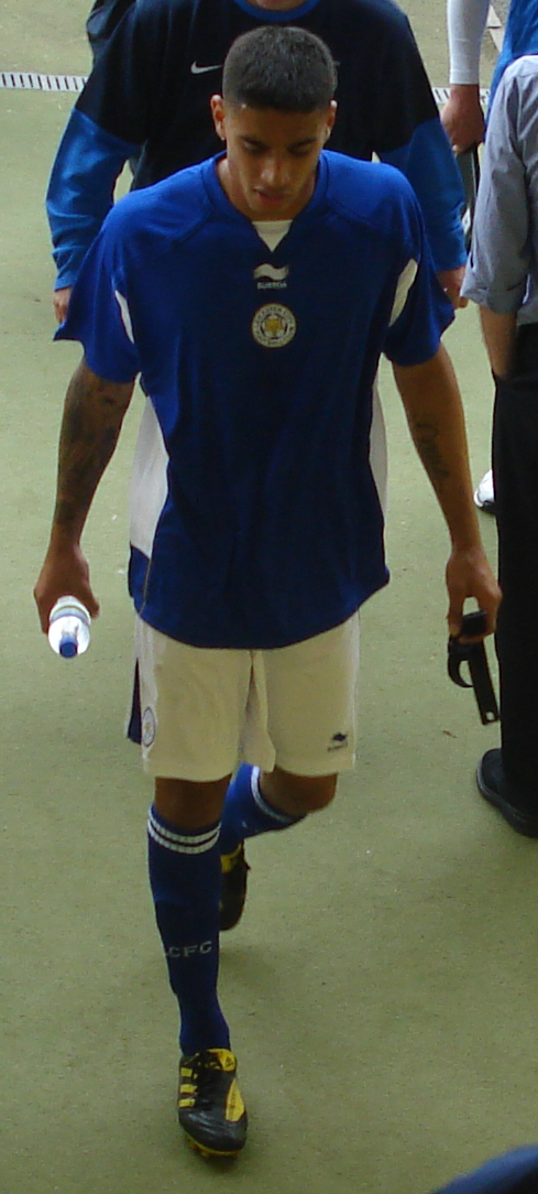 Image of Aman Verma